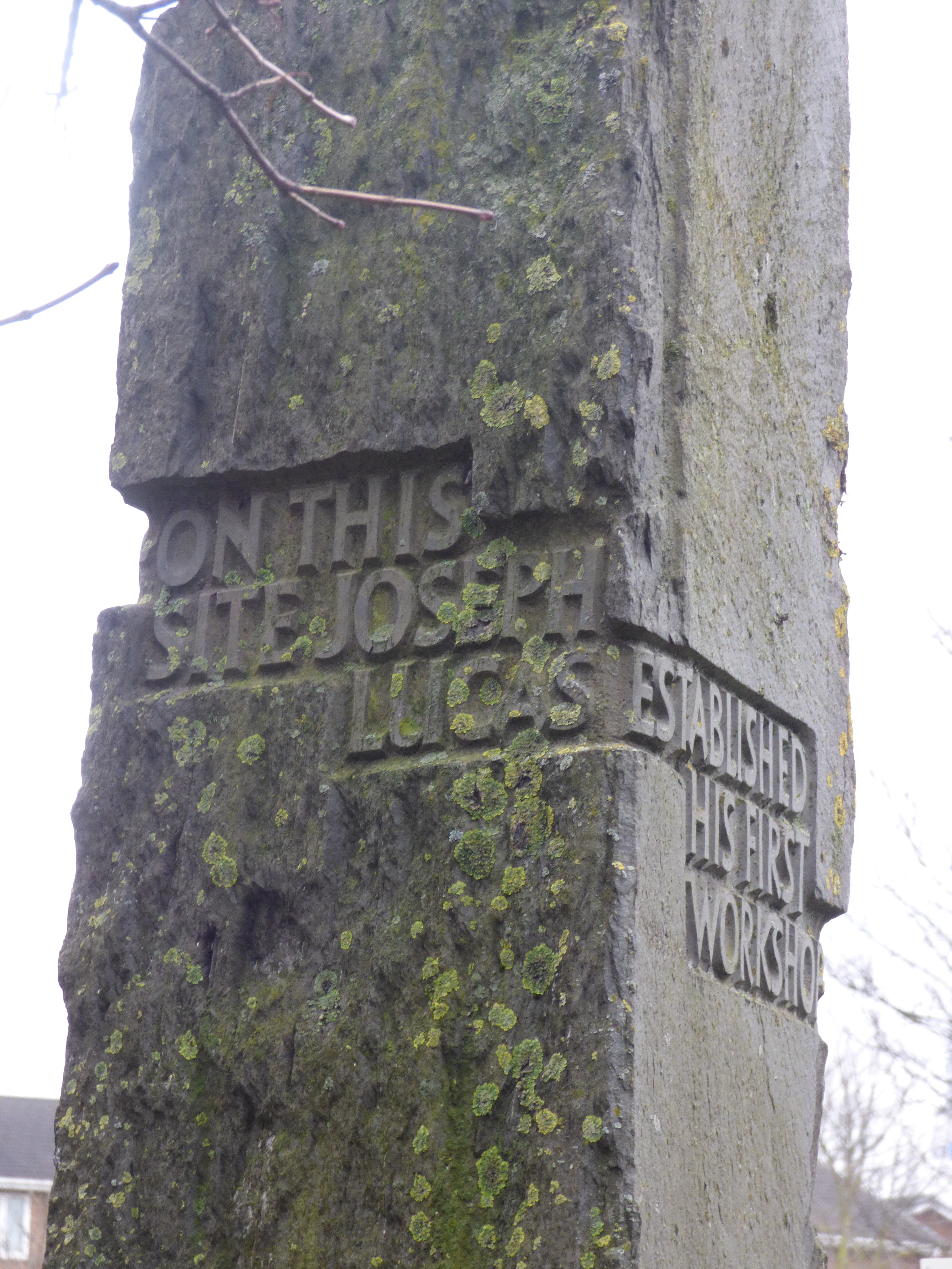 The Joseph Lucas Monument at Great King Street North in Newtown (Aston), Birmingham. It's on the former site of the Lucas Factory. Lucas Industries Limited On this site Joseph Lucas established his first workshop C. 1872 From small beginnings ... It's also near New John Street West and Lucas Circus. Was the site of the Tom Bowling Lamp Factory in Little King Street 1872. Monument to Lucas Factory A single slab of slate with a 120cm diameter circle of slate section set into the ground, with block paving circle 300cm diameter, by edge of large roundabout The Lucas factory was located to the north of this memorial on ground now closed for redevelopment. The texture varies across the stone from rough to smooth. It was made in 1994 and was made of slate.